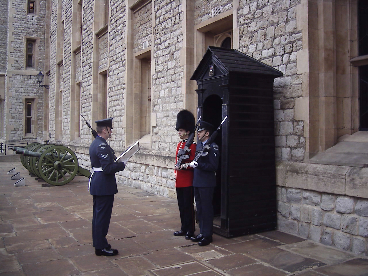 Old and new sentries posted outside the Jewel House of the Tower of London.